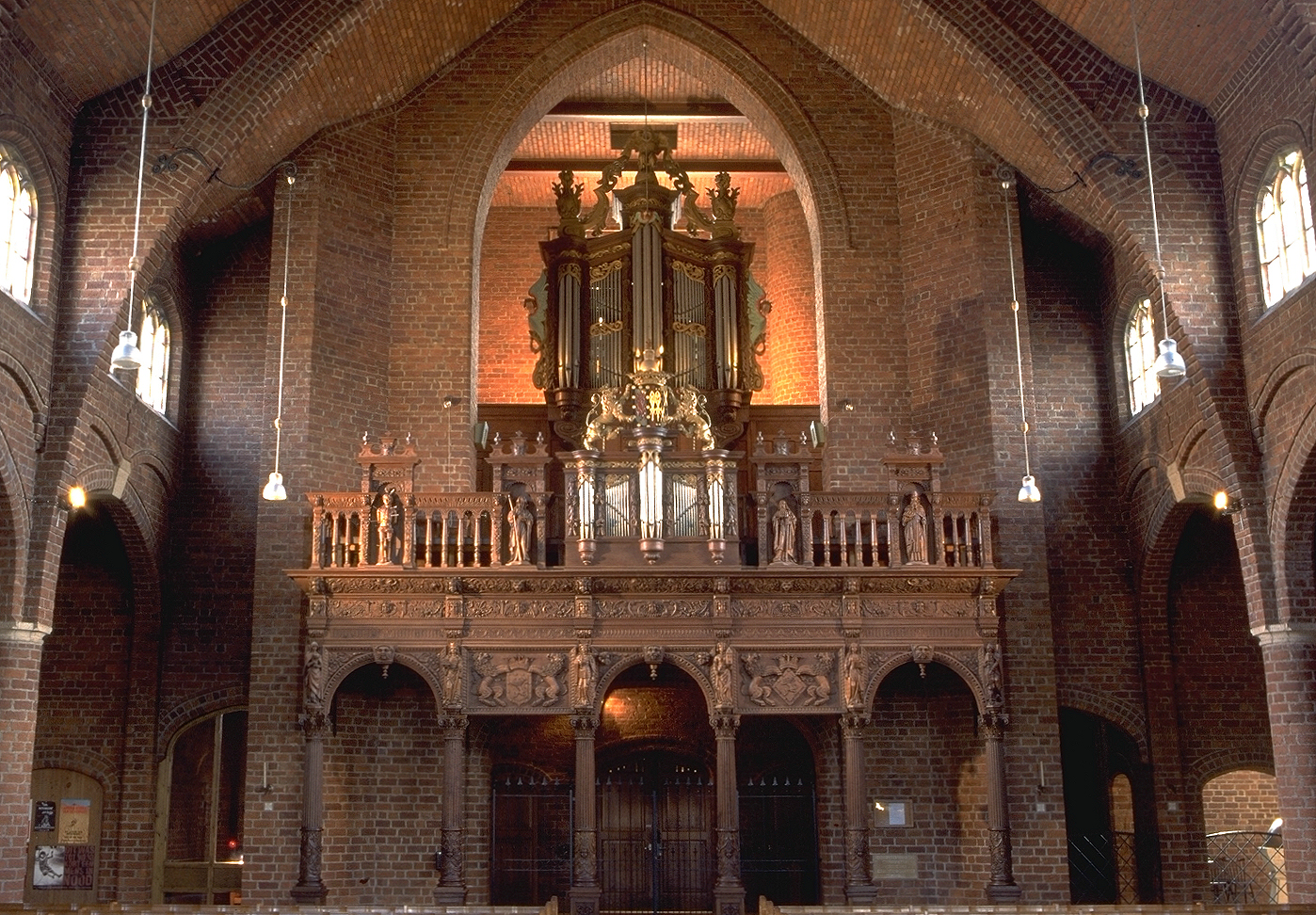 The organ and rood-loft in the Peterbasilica in Boxmeer the Netherlands.